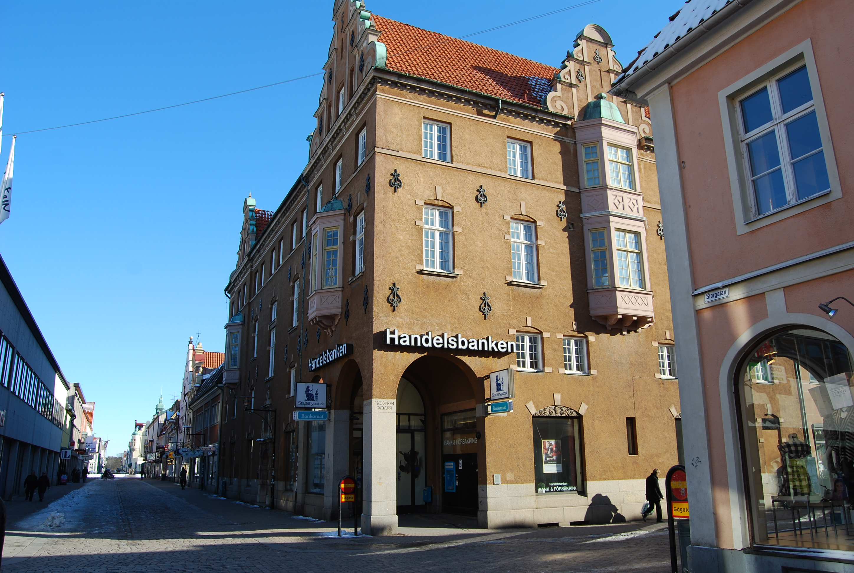 Handelsbanken in Kalmar